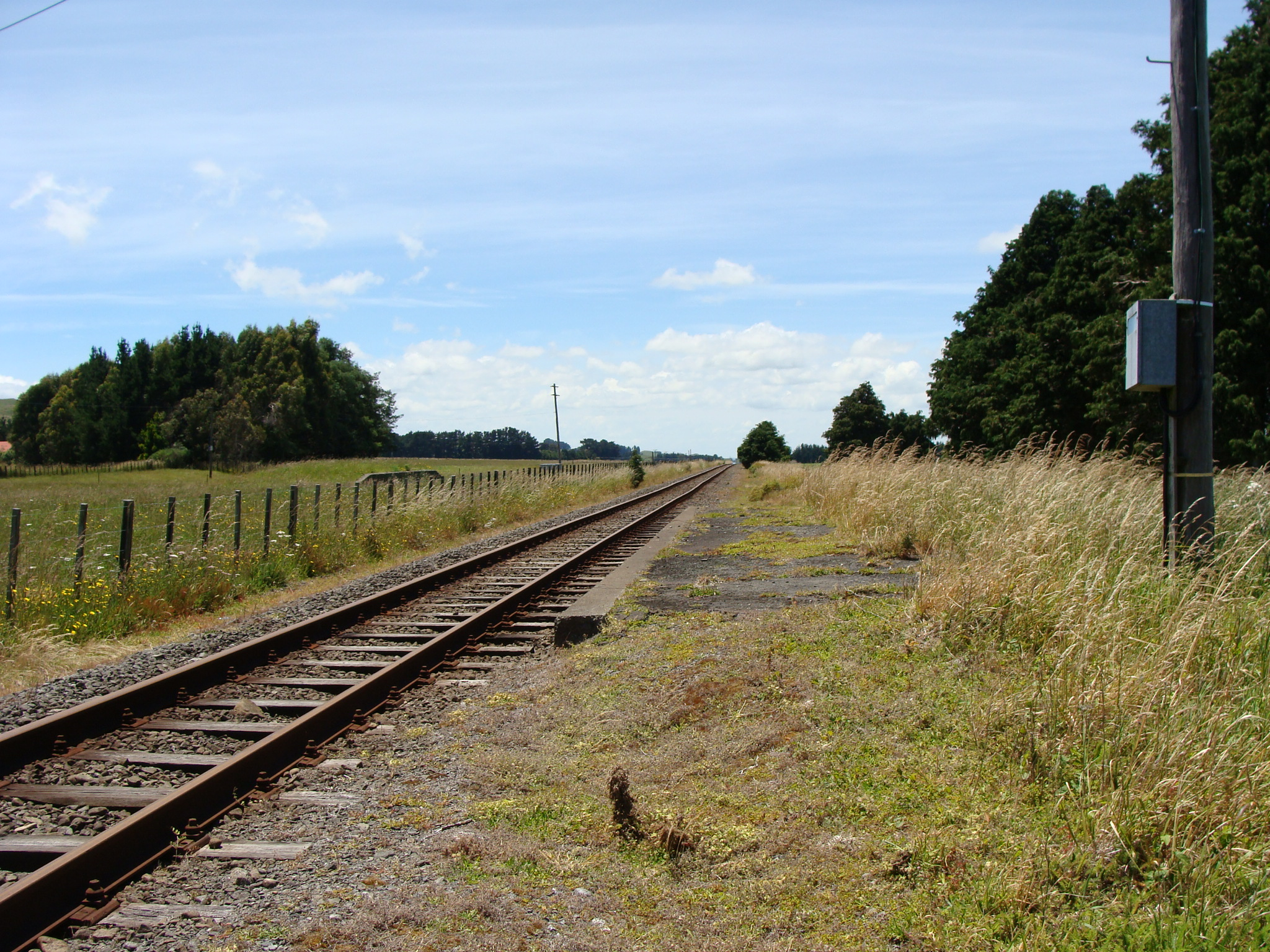 Hukanui railway station, looking north. Seen here are the loading bank (left, behind the fence) and platform (center).